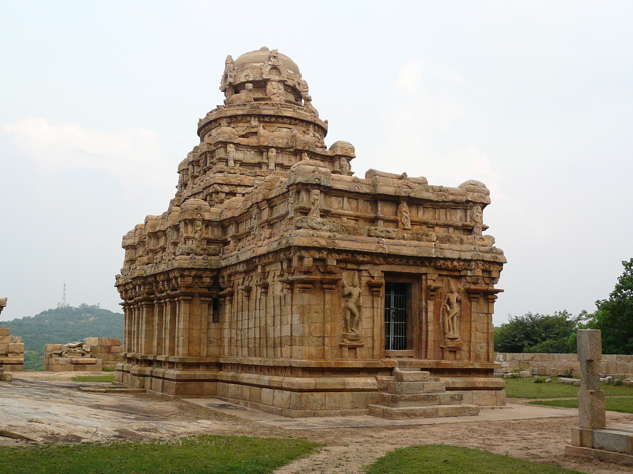 Vijayala Choleeswaram built by IIangovathi Mutharaiyar 825 AD